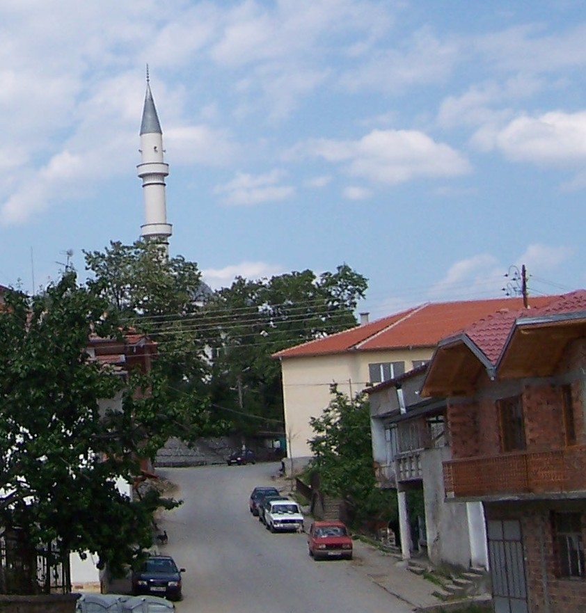 The main street and the new mosque in the village of Valkosel.